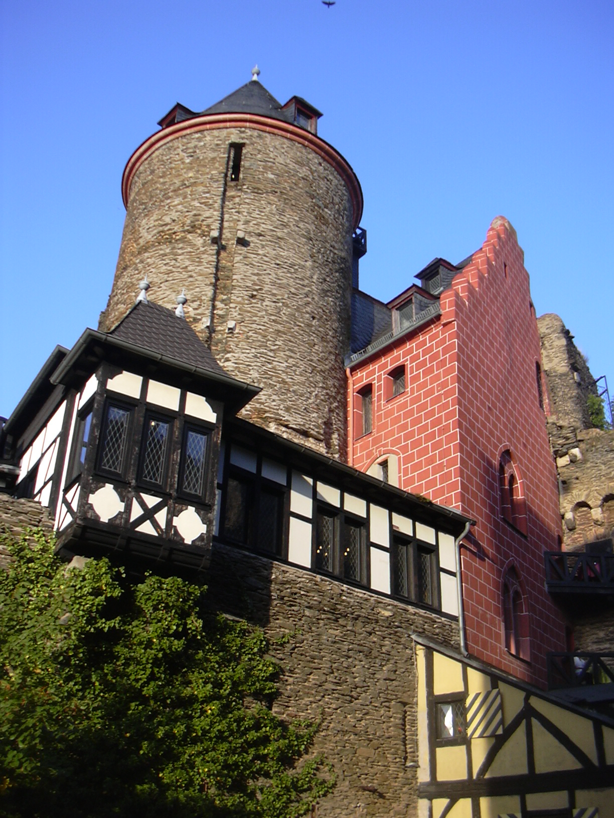 Schönburg Castle, Southern building (hotel), with integrated historic tower, Rhine Valley/Germany